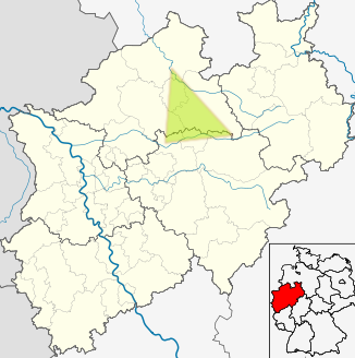 Position of the Dreingau in North Rhine-Westphalia